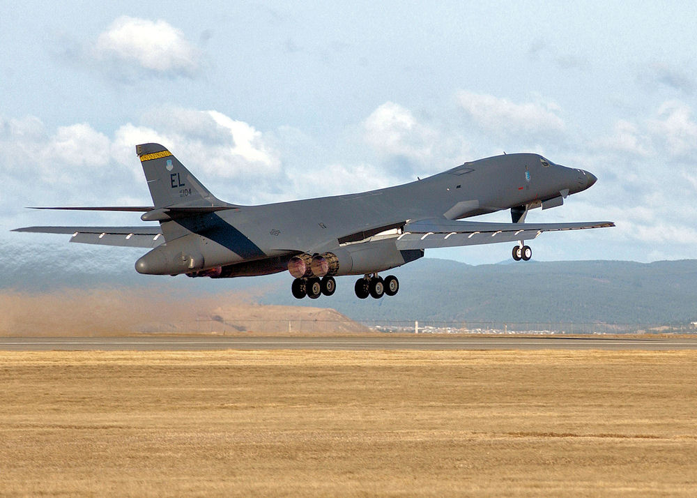 A B-1B Lancer takes off on a routine mission from here. Carrying the largest payload of both guided and unguided weapons in the Air Force inventory, the multi-mission Lancer is the backbone of America's long-range bomber force. (U.S. Air Force photo by Senior Airman Michael B. Keller)